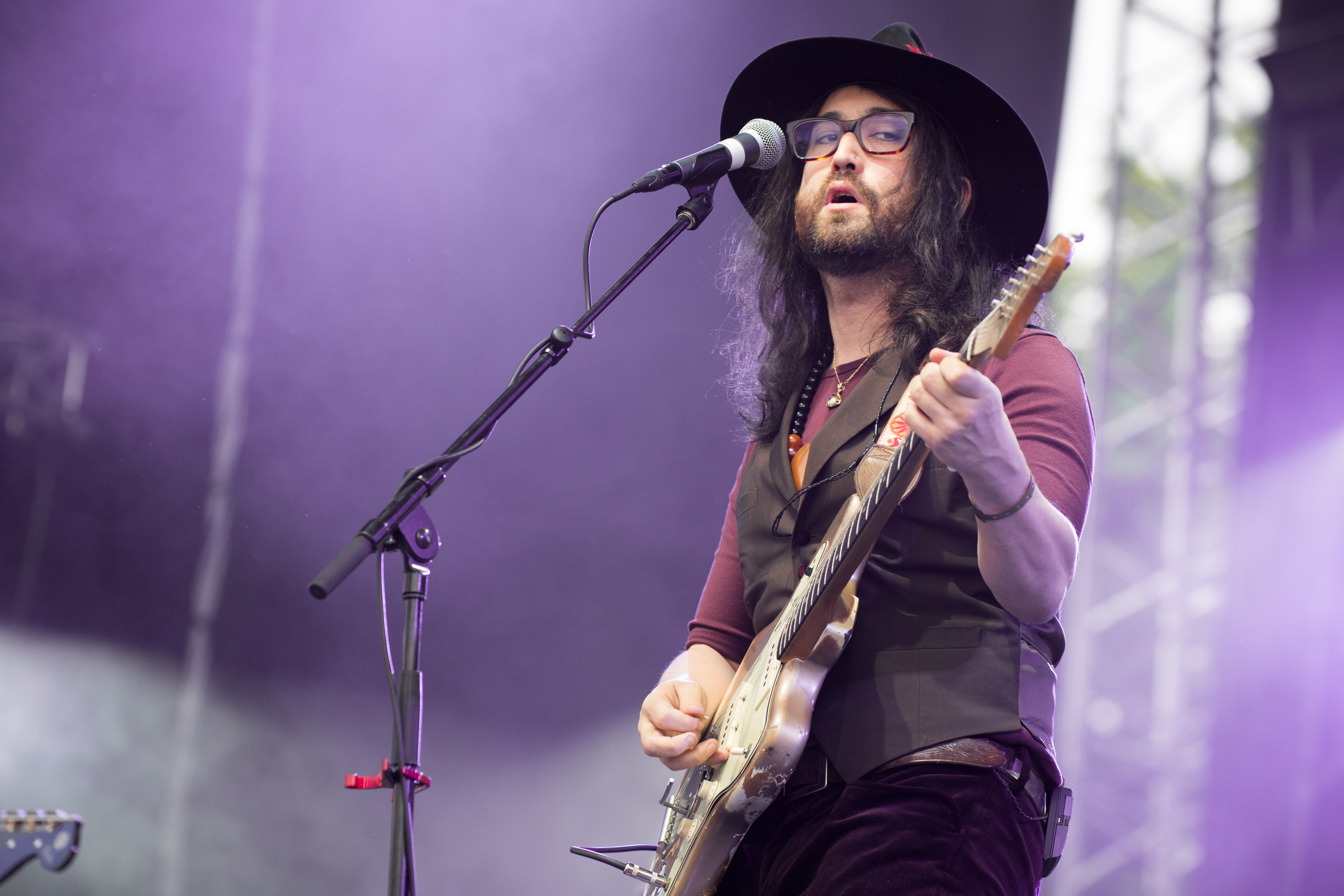 The Ghost of a Saber Tooth Tiger at "le weekend des curiosités 2015", Ramonville, France